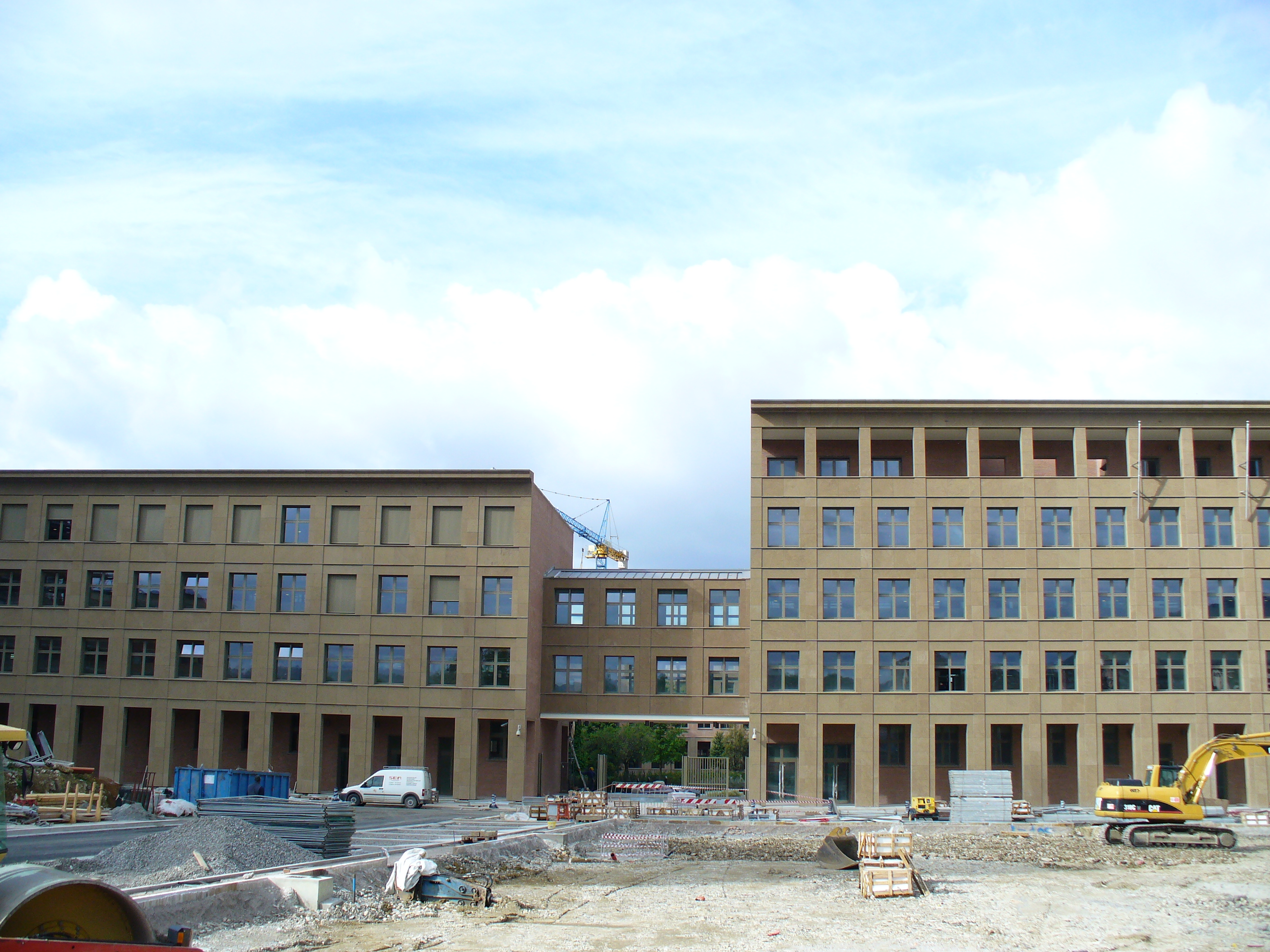 Palazzo di Giustizia (Florence)